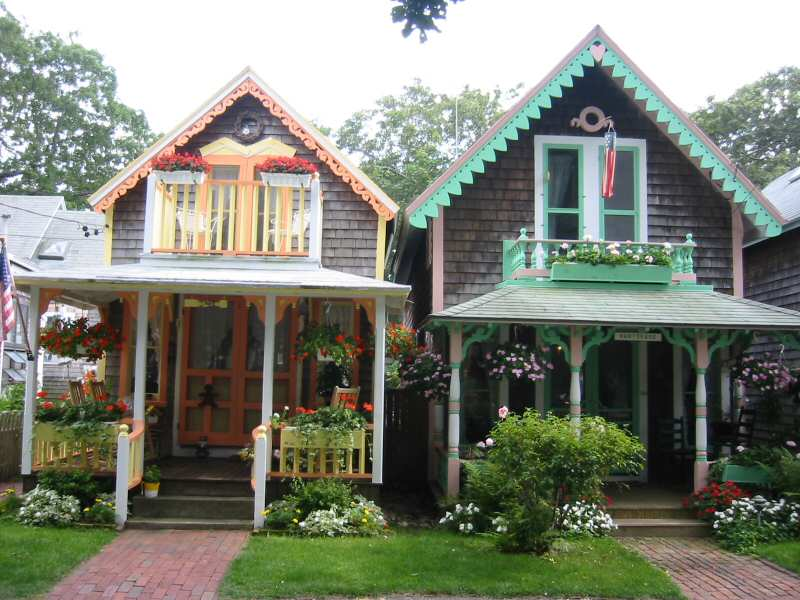 Another view of two ornate Carpenter Gothic style cottages in Oak Bluffs.